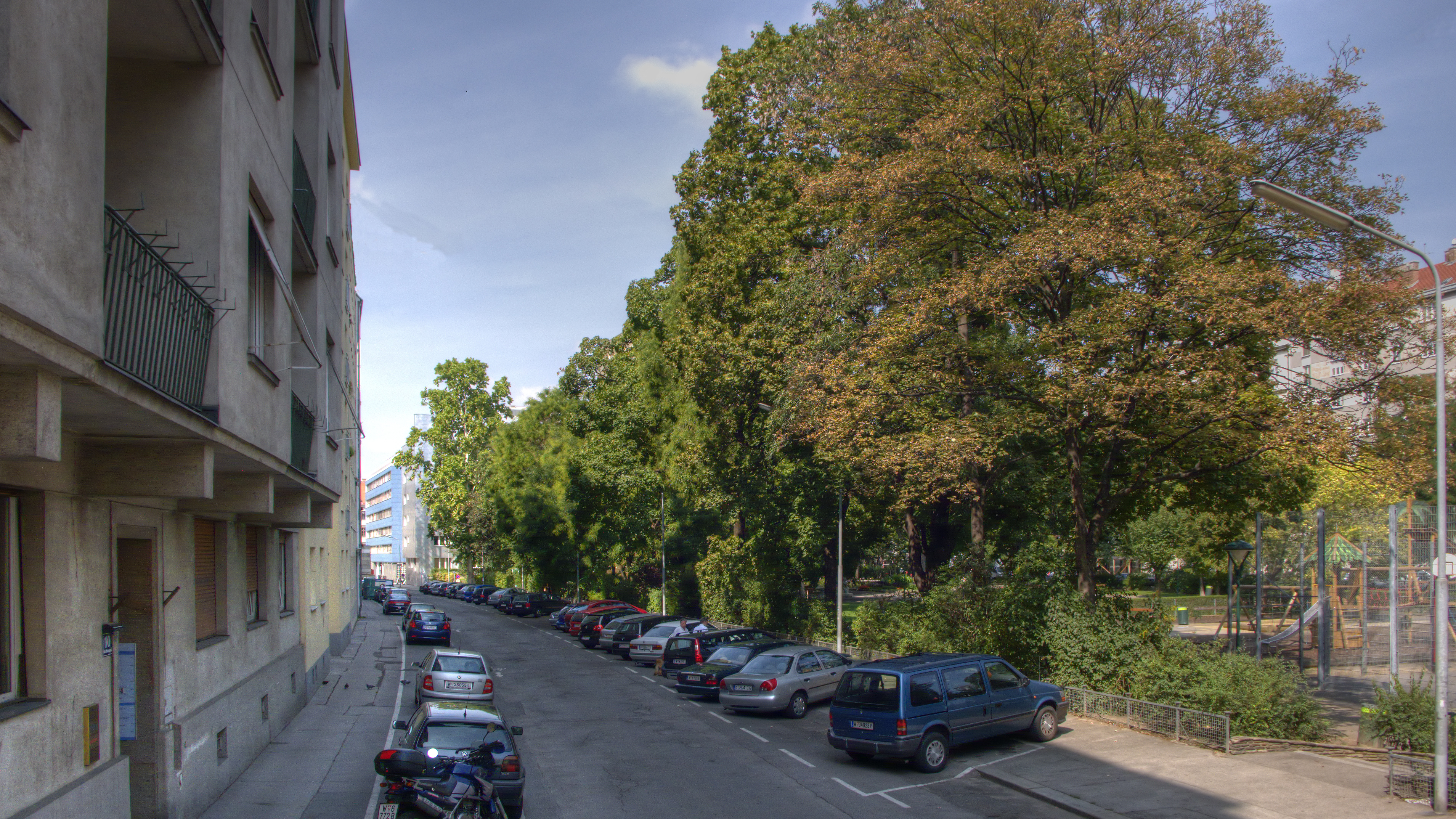 Am Modenapark in Vienna Landstraße